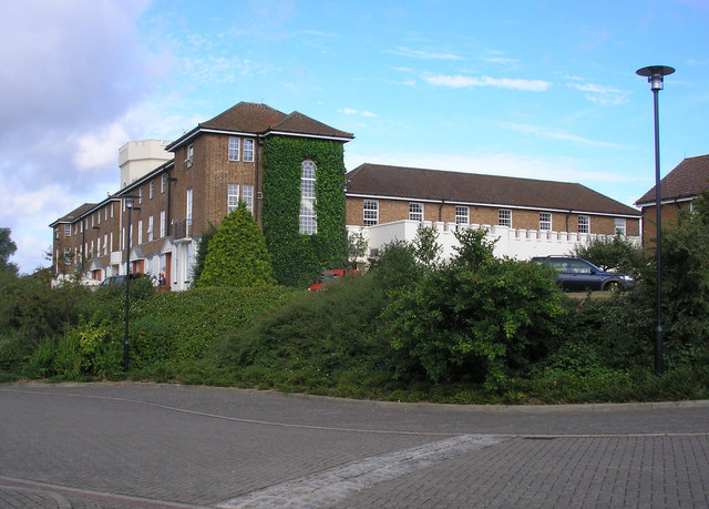 Surrey Assembly Hall of Jehovah's Witnesses. The whole of this substantial complex situated off the east side of Byers Lane has been constructed in the last few years. Clearly their campaign of knocking on doors has paid off - the car park was very well filled when this photograph was taken on a Sunday morning.